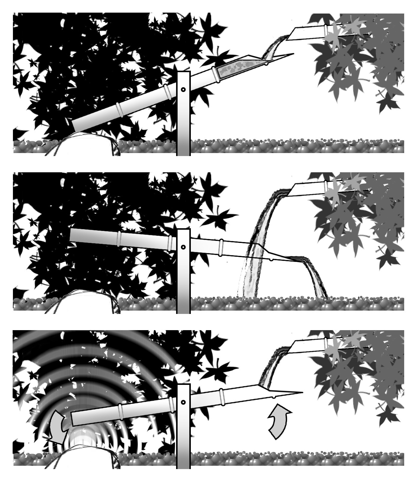 Shishi-odoshi scheme.